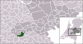 Locator map of Dutch municipalities in Gelderland (LocatieMaasdriel.png)